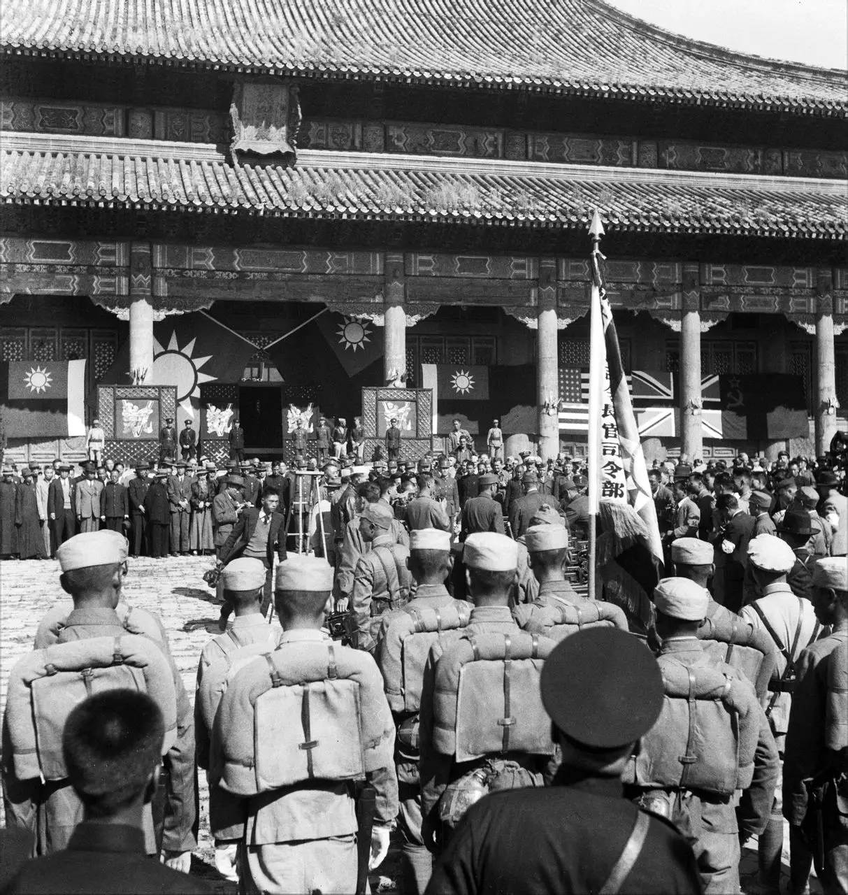 under the surrender of Japan to the Allies (U.S. and China)